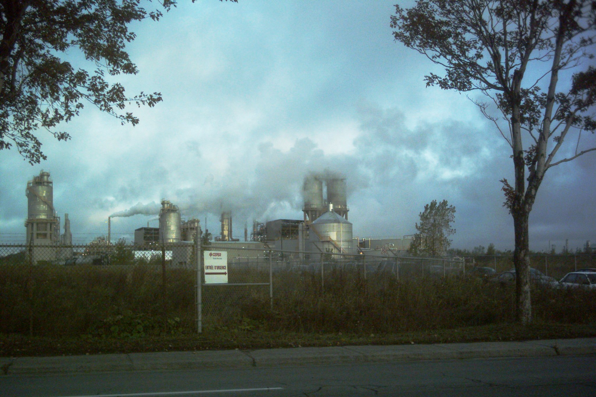 Montreal